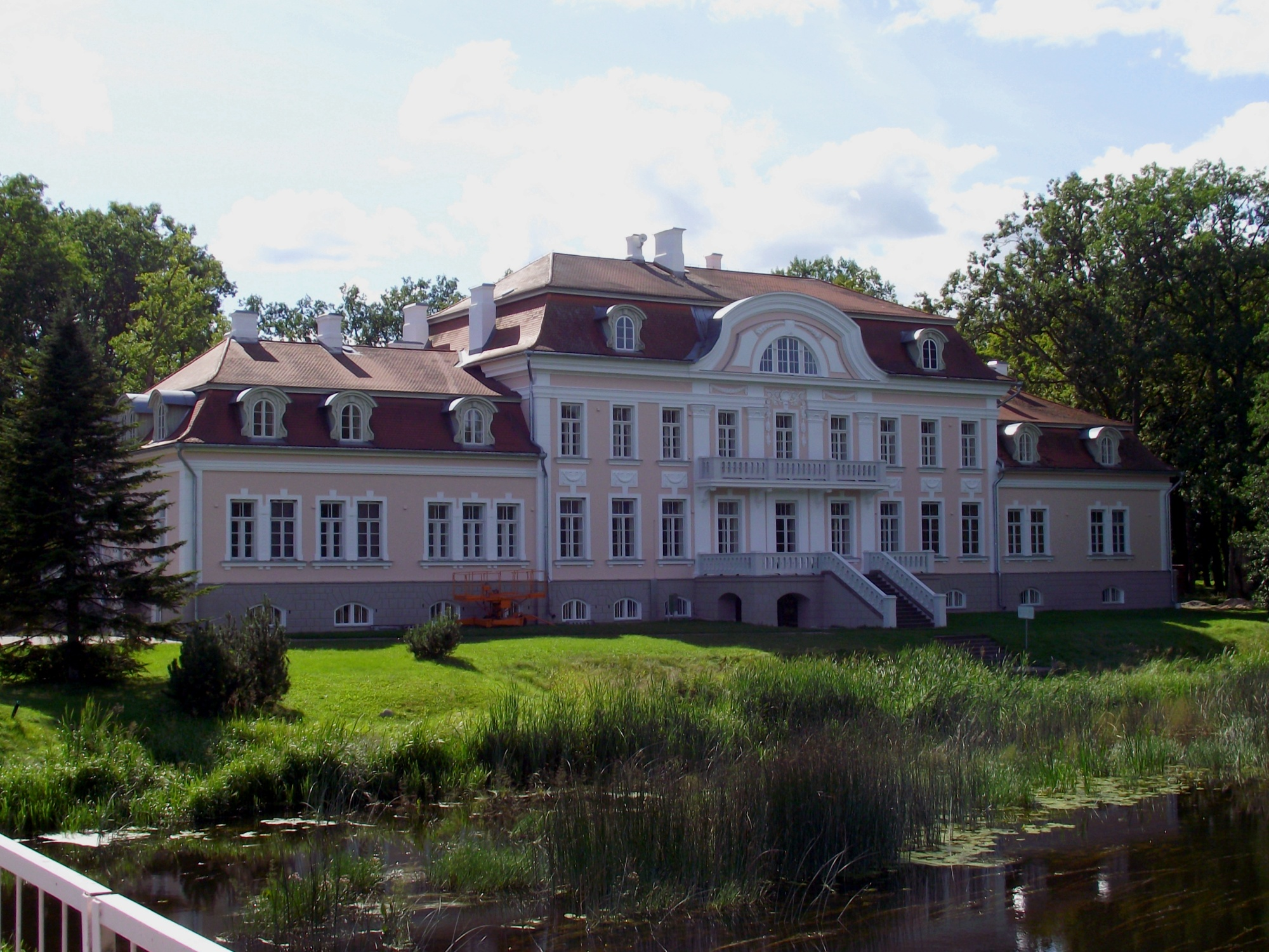 Laupa manor.